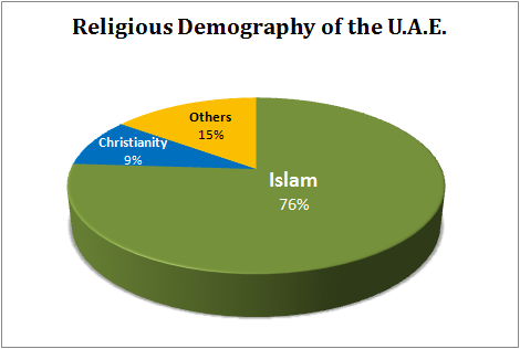 Religions of the United Arab Emirates presented by pie charts. (Note: Emirati's are 100% Muslim, other religions of foreigners.)